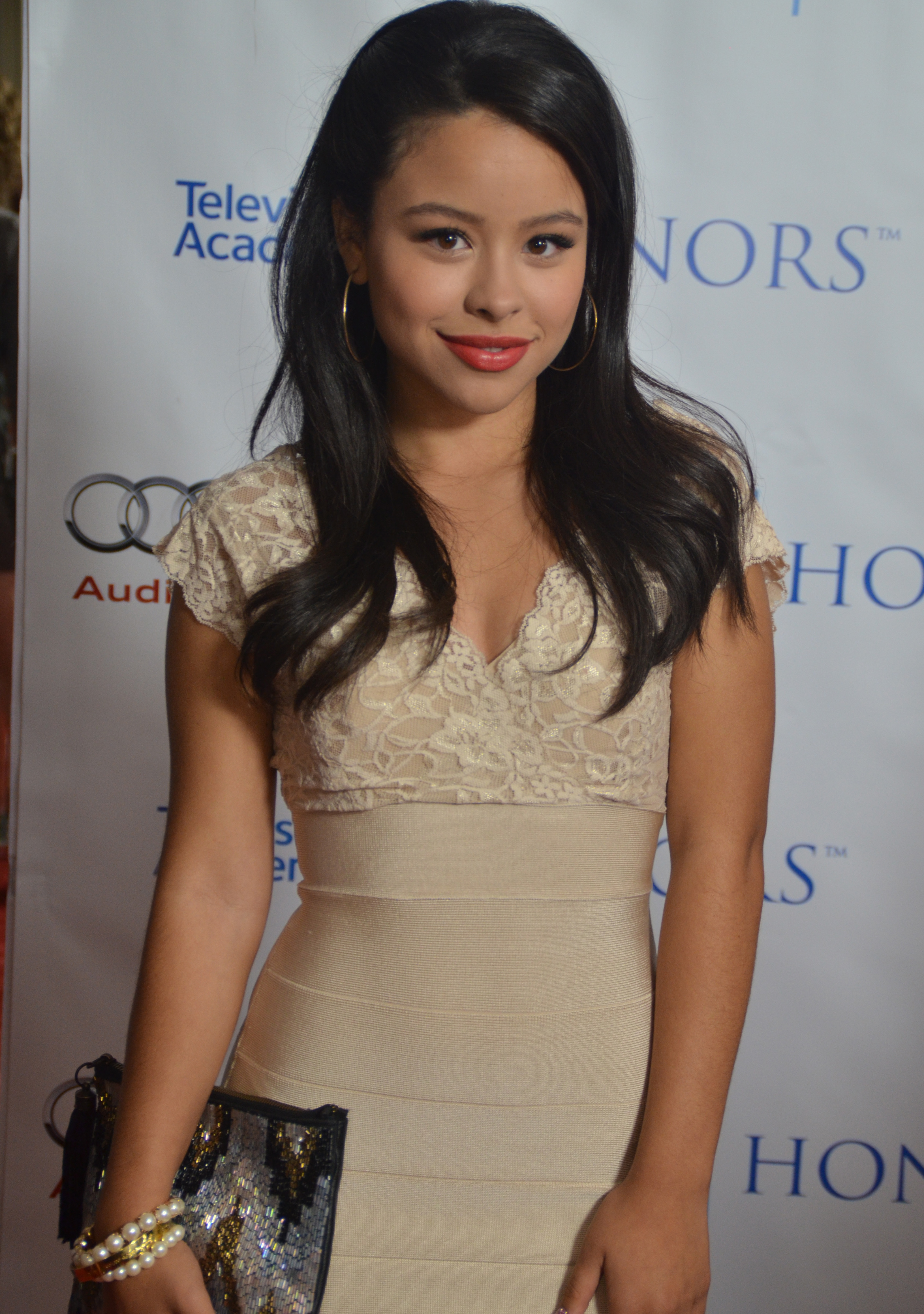 Cierra Ramirez at the 7th Annual Television Academy Honors red carpet at the Garden Terrace of the SLS Hotel at Beverly Hills on June 1, 2014